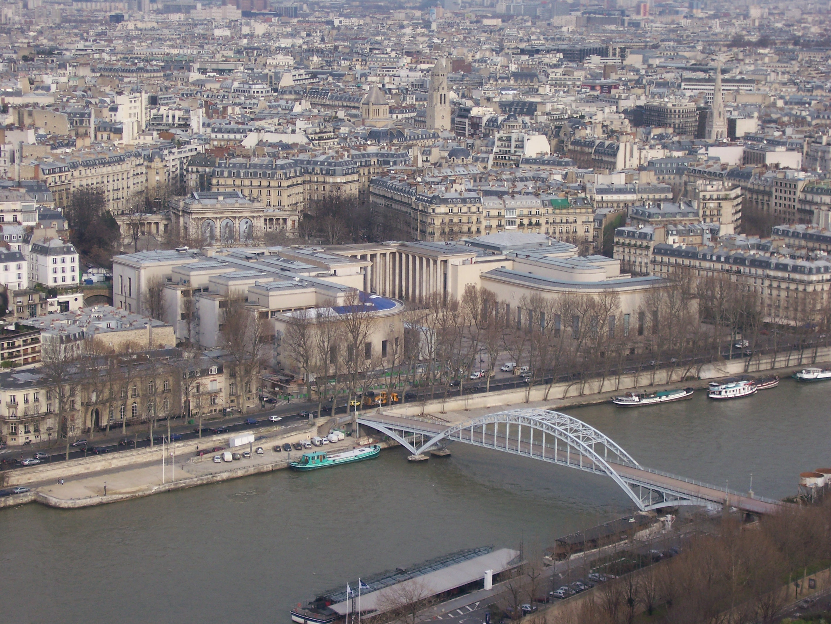 Palais de Tokyo as viewed from the second level of the Eiffel Tower.